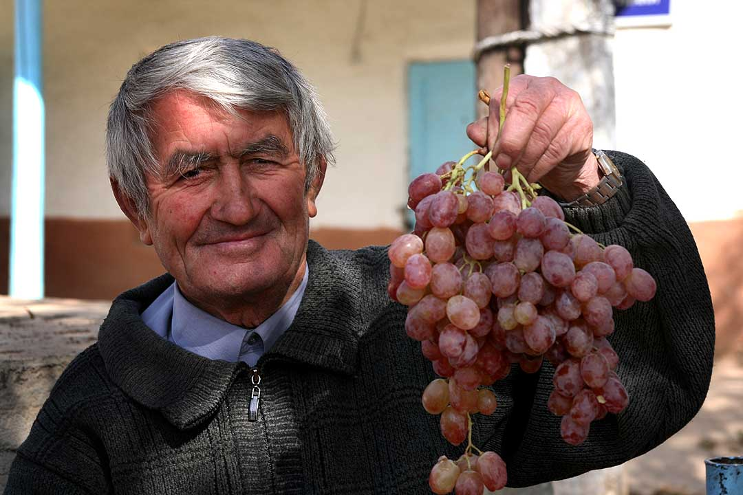 A man from Tajikistan holding up grapes in his hand.